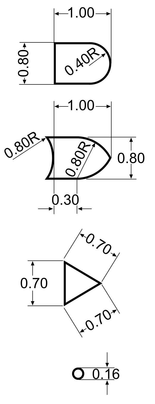 MIL symbols (AND, OR, Amp, status description symbol)